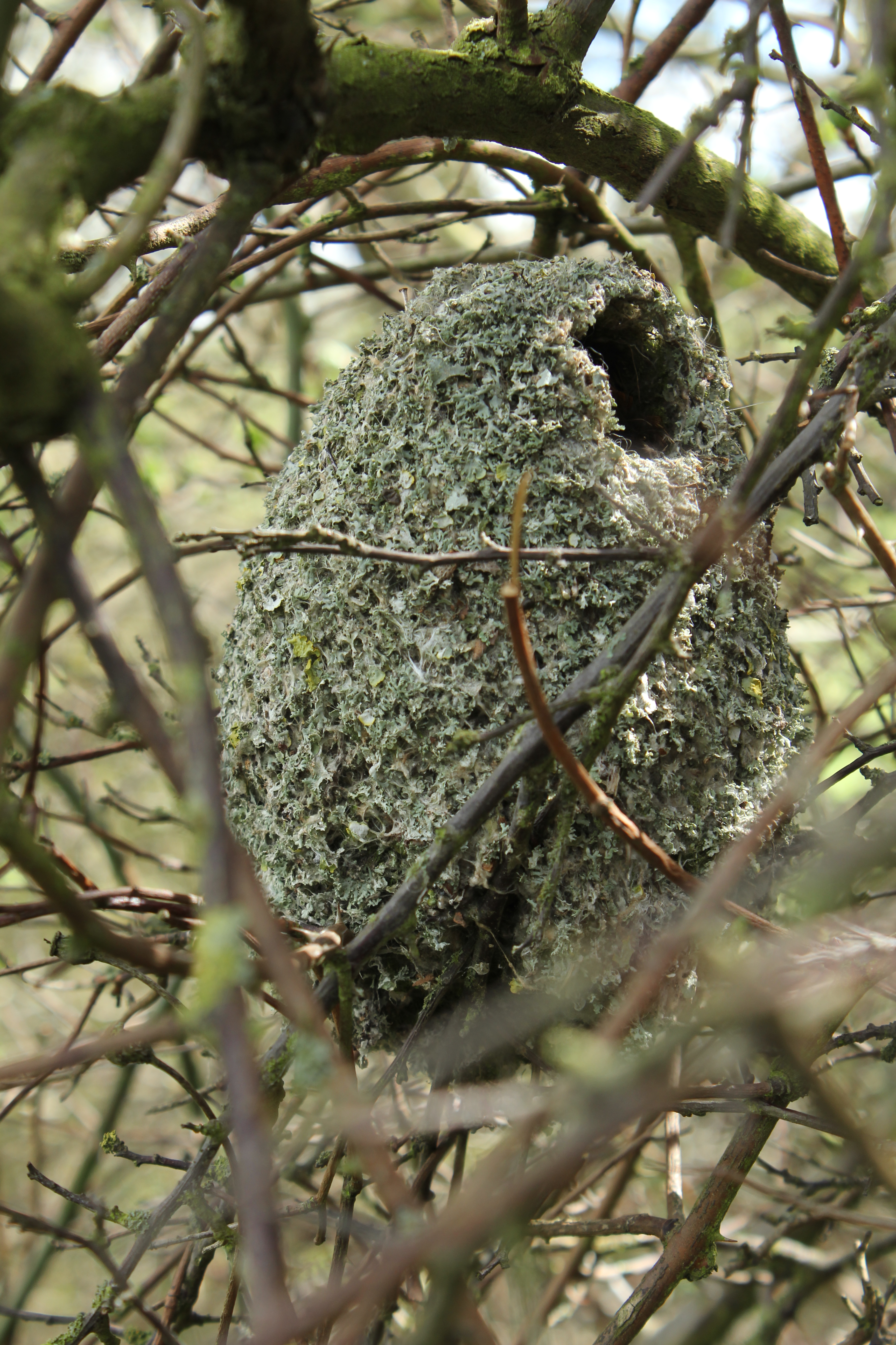 Full of Eggs Latin name Aegithalos caudatus Family Long-tailed tits (Aegithalidae) Overview The long-tailed tit is easily recognisable with its distinctive colouring, a... Where to see them ... When to see them All year round What they eat Insects, occasionally seeds in autumn and winter